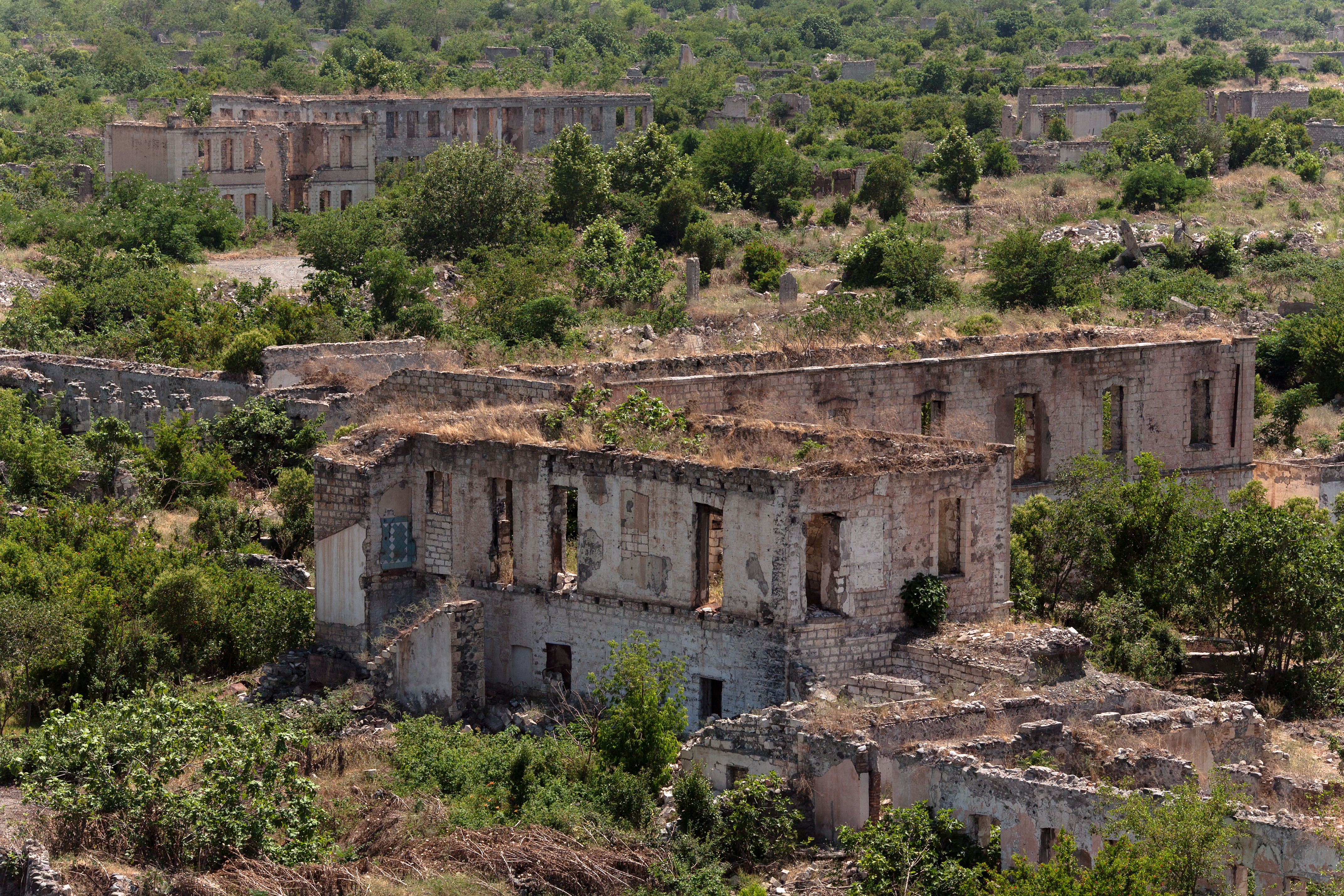 17 years after it was abandoned, nature is slowly reclaiming Agdam, a ghost town and the former home of some 40.000 people.